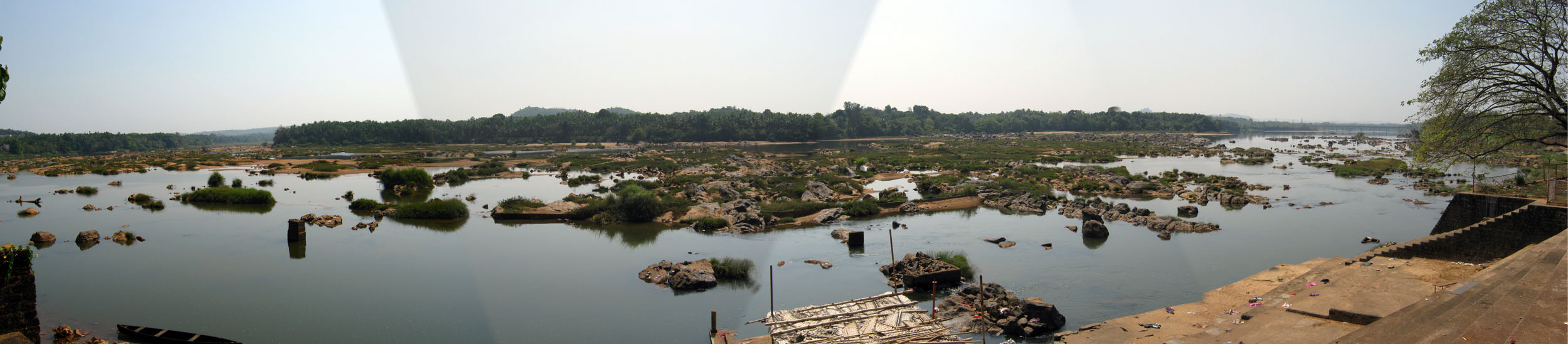 A panoramic view of river Nethravathi, flowing through Bantwal Town in Dakshina Kannada (South Canara) district, Karnataka Sate, India. This panorama is created by stitching 4 photographs together. This photograph is taken in front of Sri Thirumala Venkataramana Swamy Temple, Bantwal